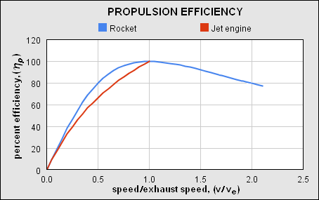 Propulsive efficiency of jet and rocket engine at different speeds relative to the exhaust velocity